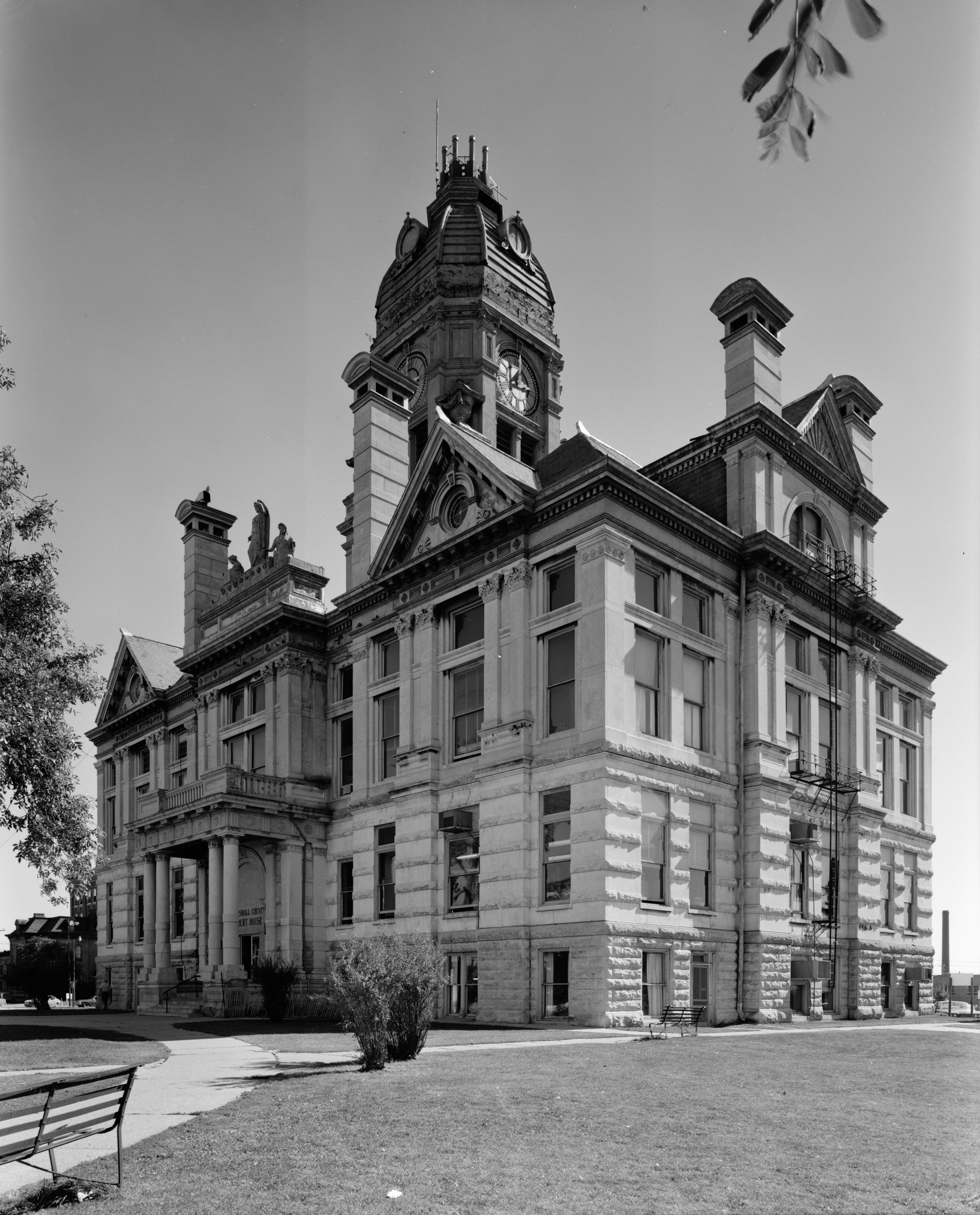 Northwestern side of the Marshall County Courthouse, located on Courthouse Square in Marshalltown, Iowa, United States. Built in 1884, the Classical Revival courthouse is listed on the National Register of Historic Places.